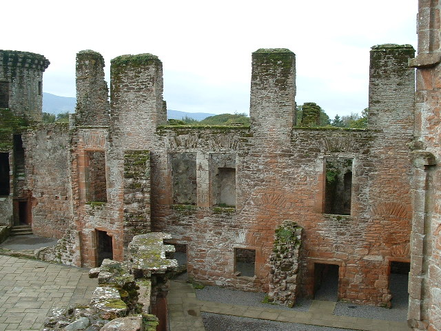 Caerlaverock Castle, Dumfriesshire, North Britain.